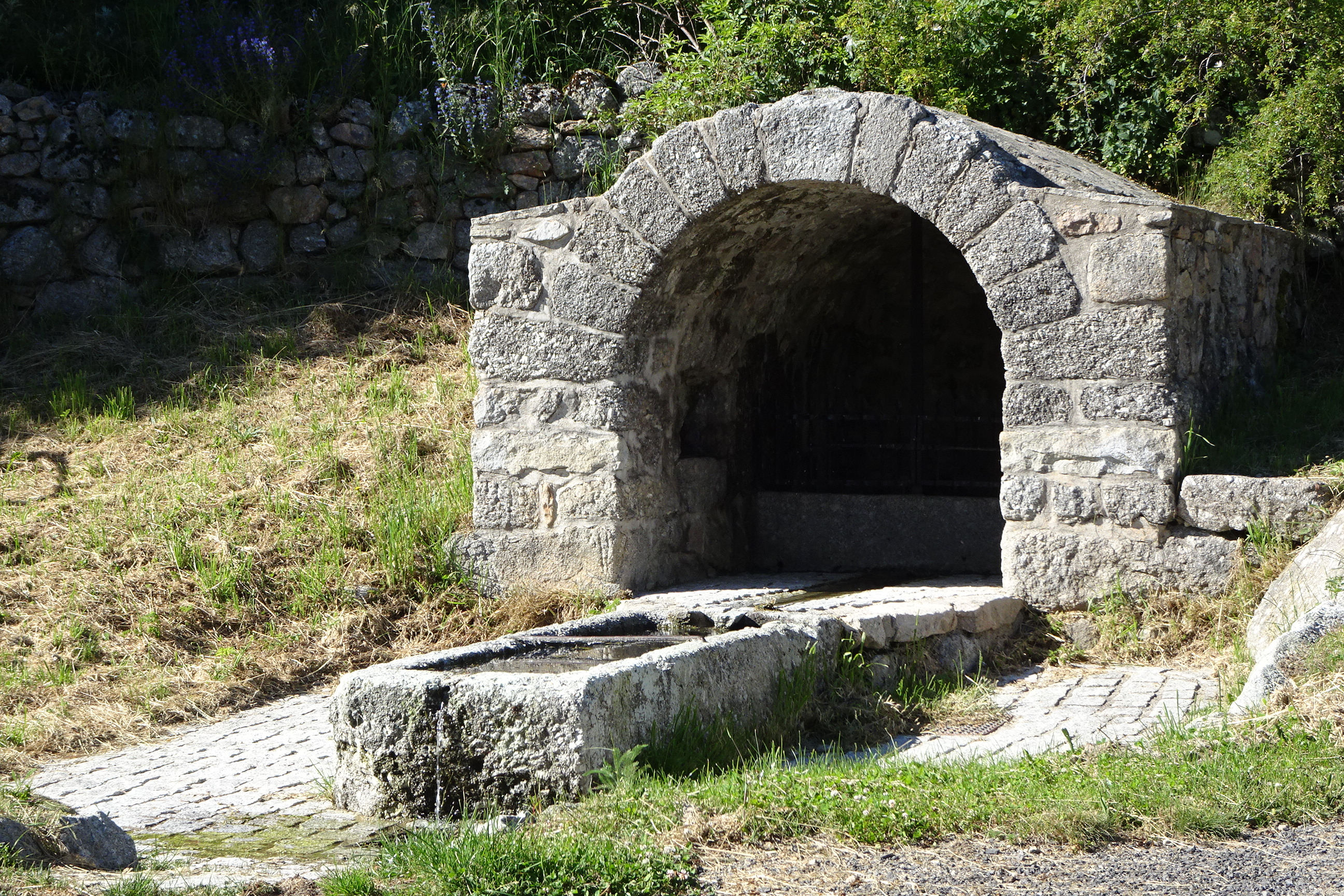 source, drinker for cattle Saint Paul le froid-Margeride-Lozère